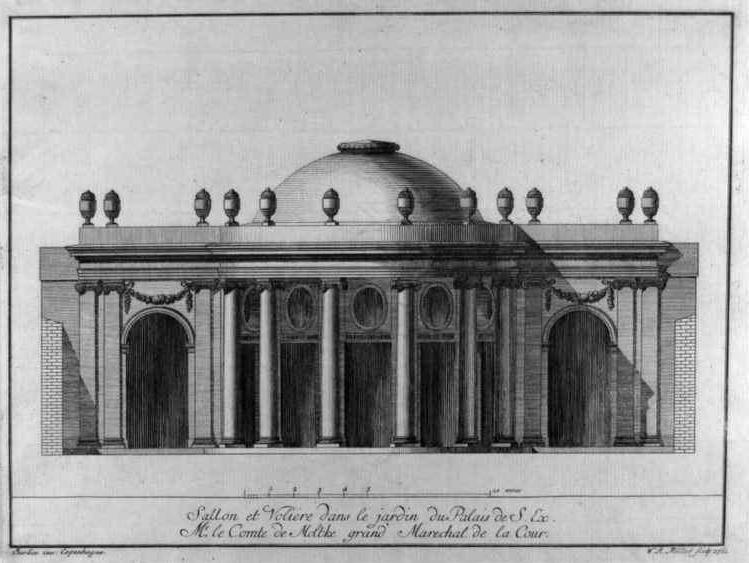 Volière in the garden of the Moltke Palace, or King Christian VIII's Palace, Amalienborg, Copenhagen, Denmark.